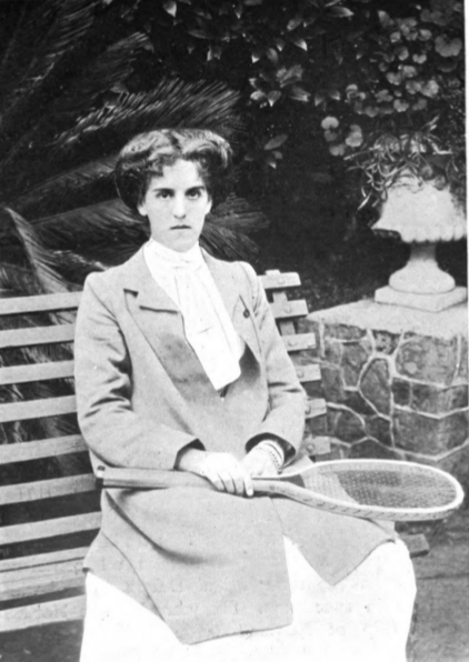 Dorothea Douglass-Chambers (1878-1960), English tennis player, Wimbledon champion 1903, 04, 06, 10, 11, 13, 14. Olympic champion 1908.